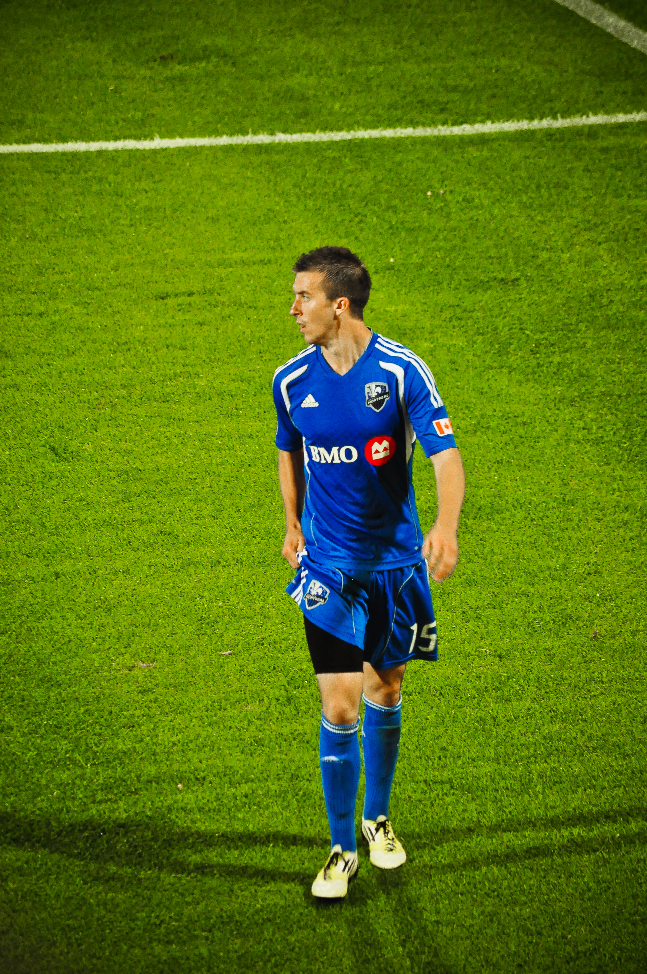 Jeb Brovsky of the Impact.